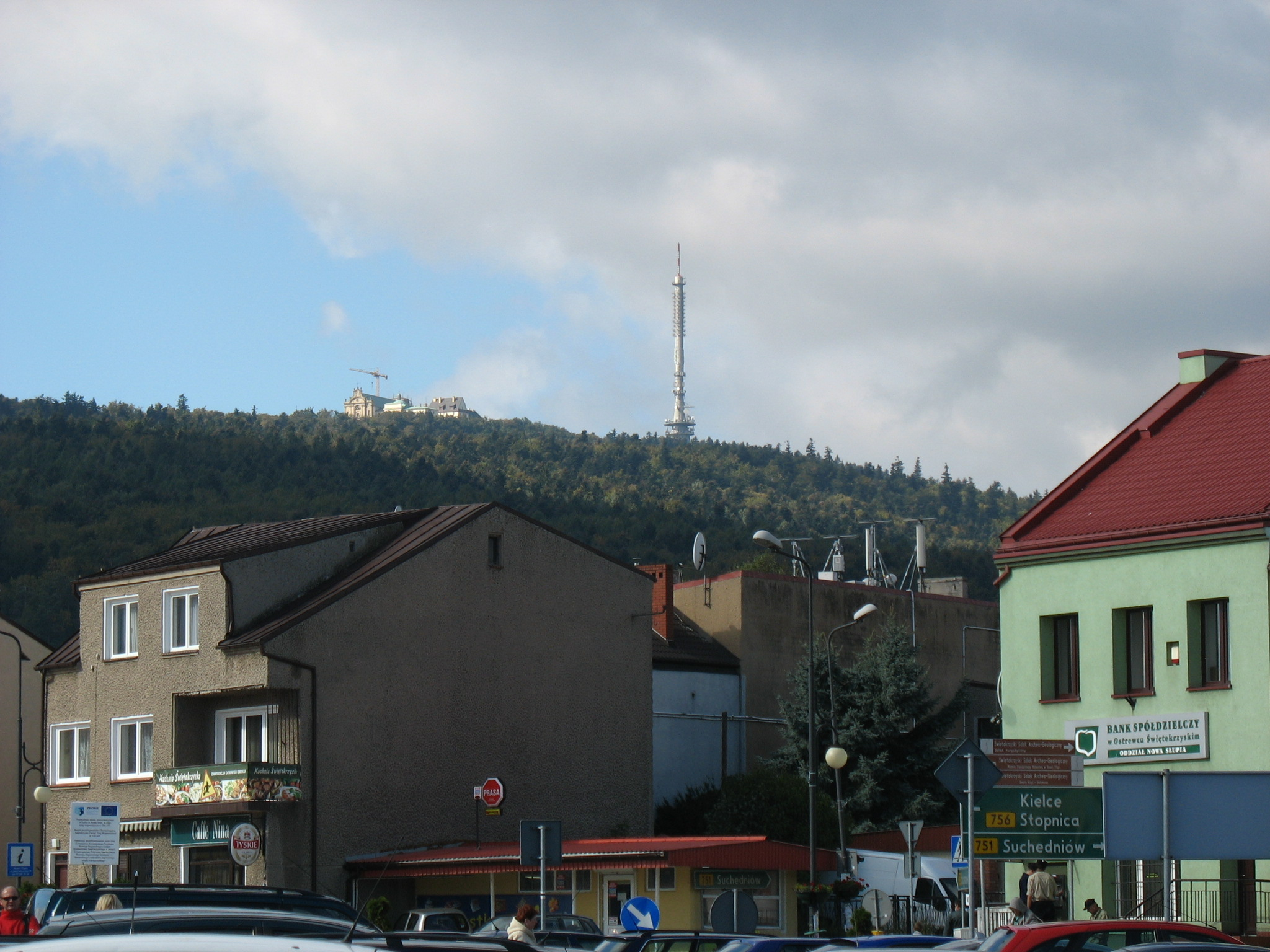 Święty Krzyż seen from main square in Nowa Słupia